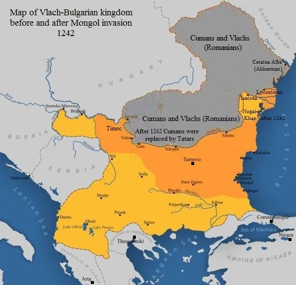 Map of Vlach Bulgarian state around 1242